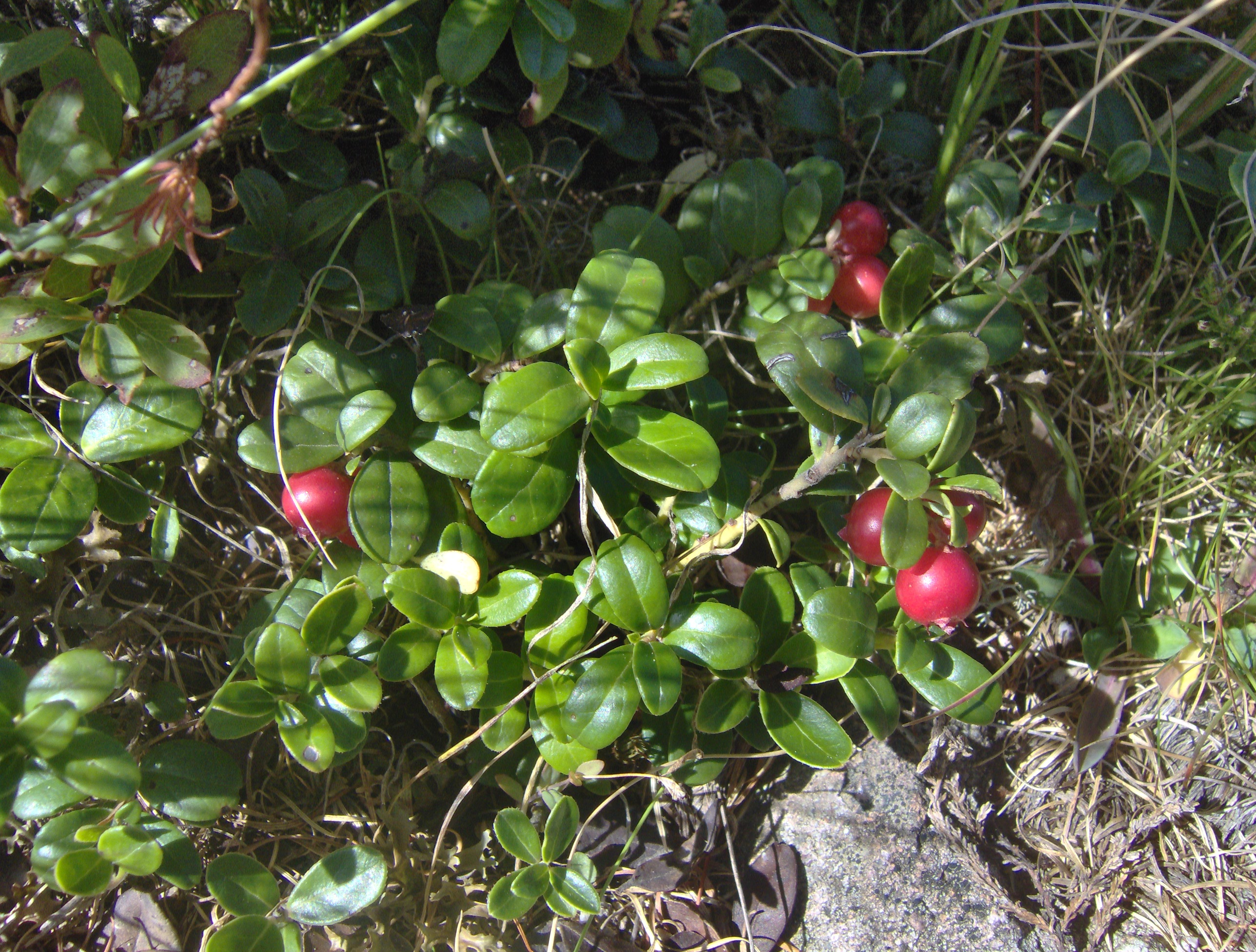 cranberry plant.